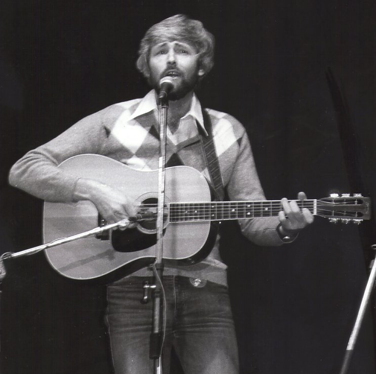 Paul Metsers (singer/songwriter) performing at the 1981 Norwich Folk Festival, UK (photograph by Tony Rees)